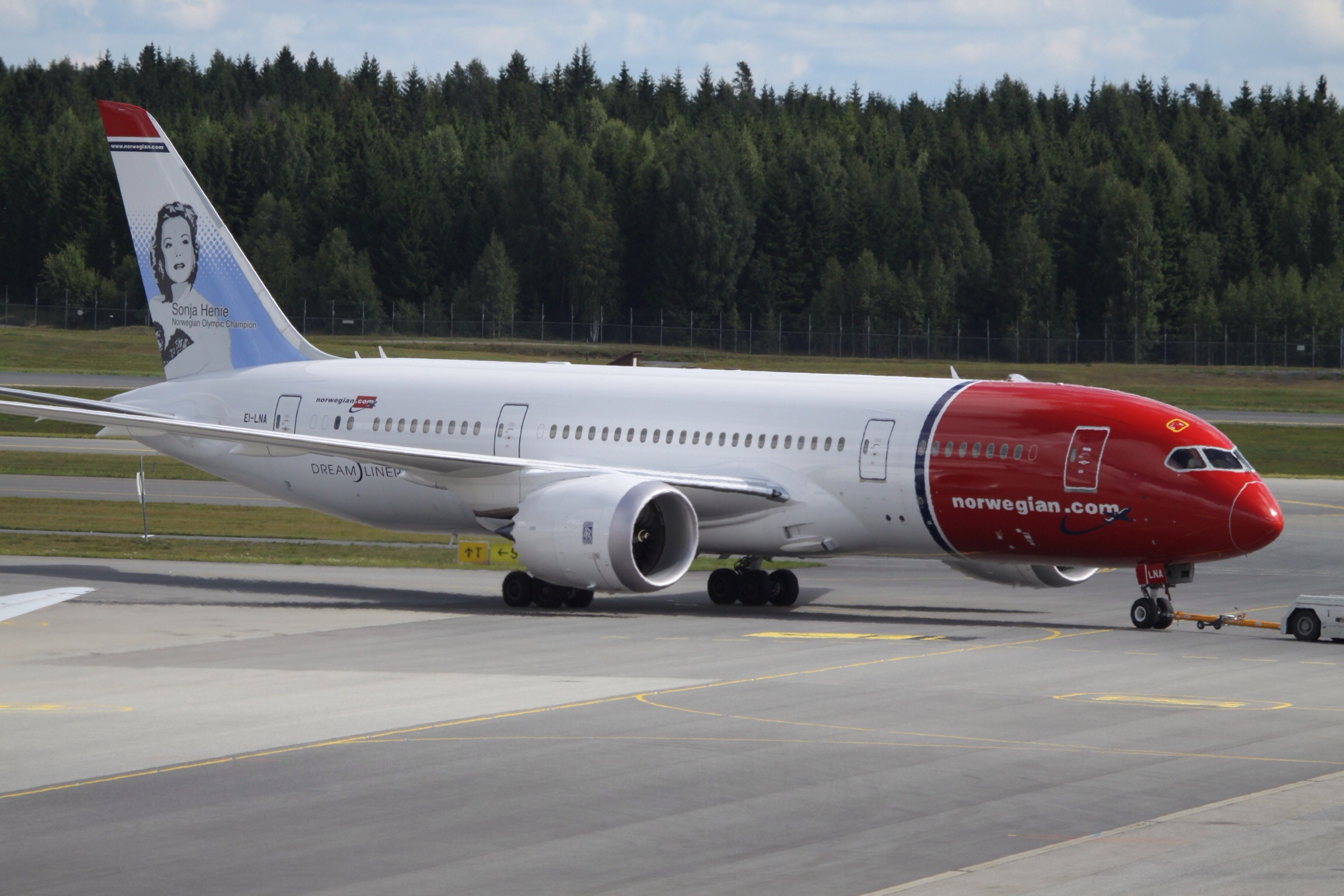 At Oslo Gardermoen